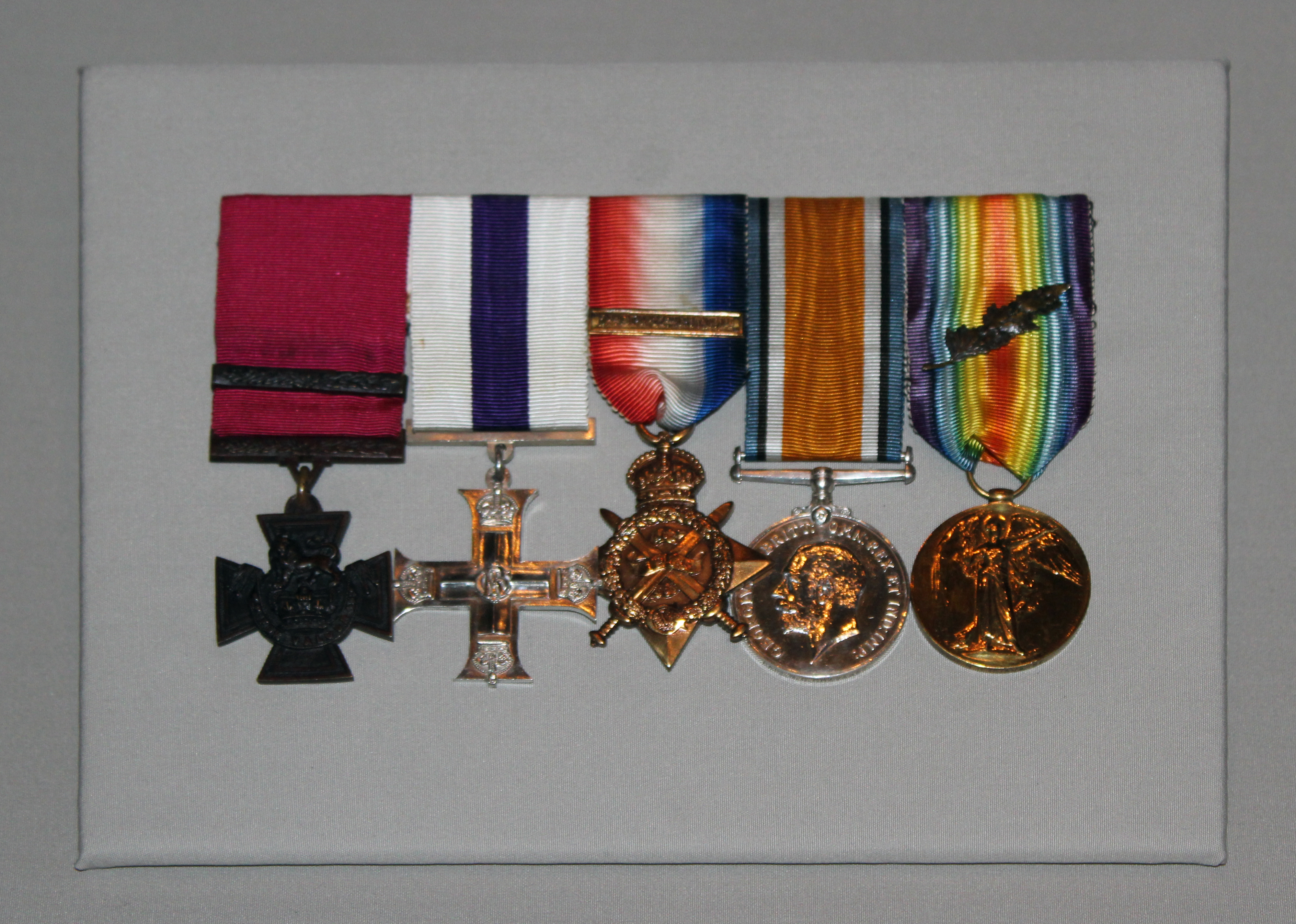 Medals awarded to Noel Godfrey Chavasse. L to R: Victoria Cross and Bar, Military Cross, 1914 Star, British War Medal, Victory Medal.